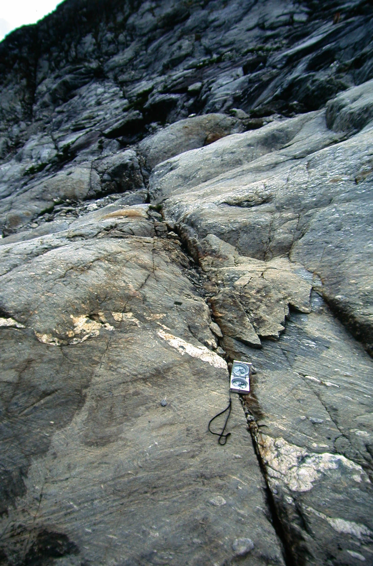 East-West dextral strike-slip fault cross-cut a quartz vein near the Picolo San Bernardo pass (Italian Alps).